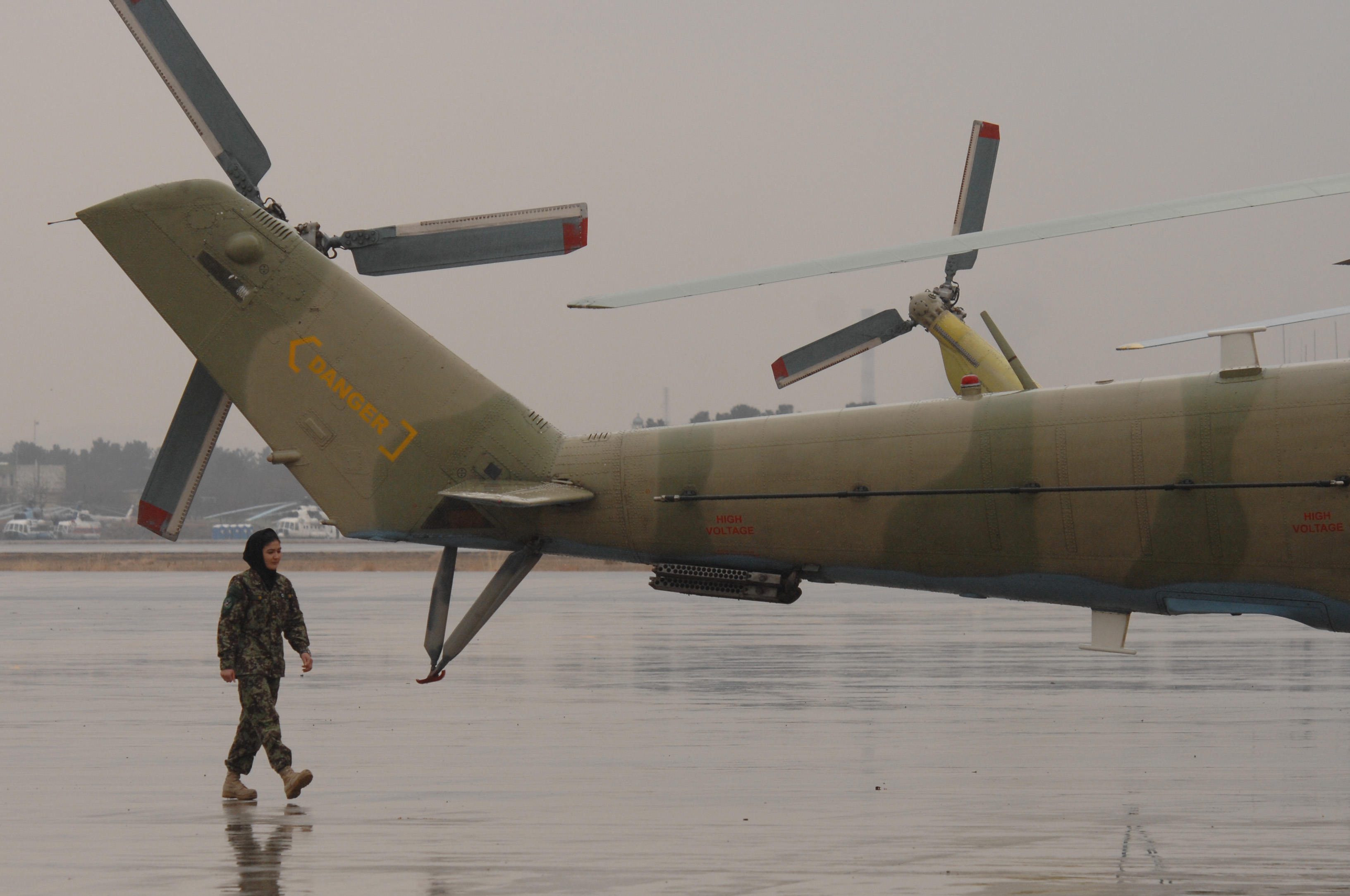 Mary, one of four female flight students at the Afghan Air Force Thunder Lab, an English language immersion program for Company Grade AAF officers, on the flight line in Kabul, Afghanistan.